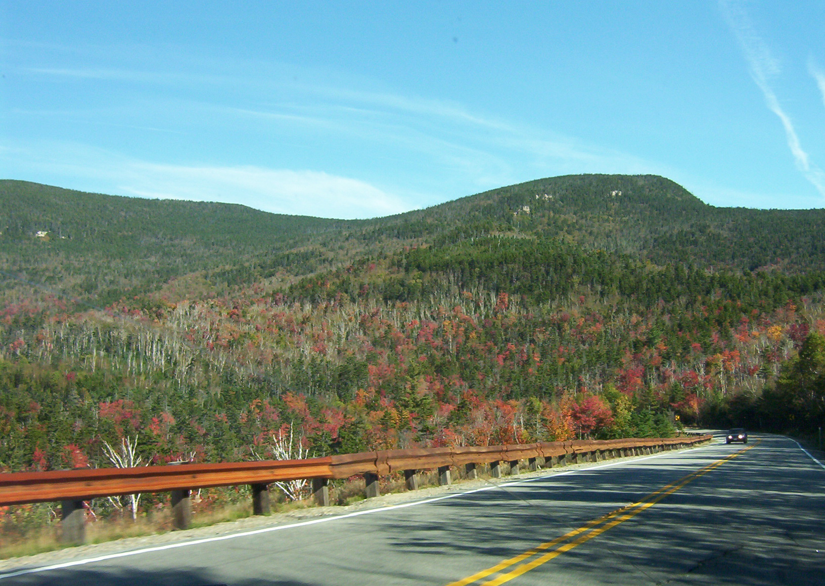 The Kancamagus Highway, New Hampshire Route 112. Matthew Teal, taken by me October 2nd, 2005.